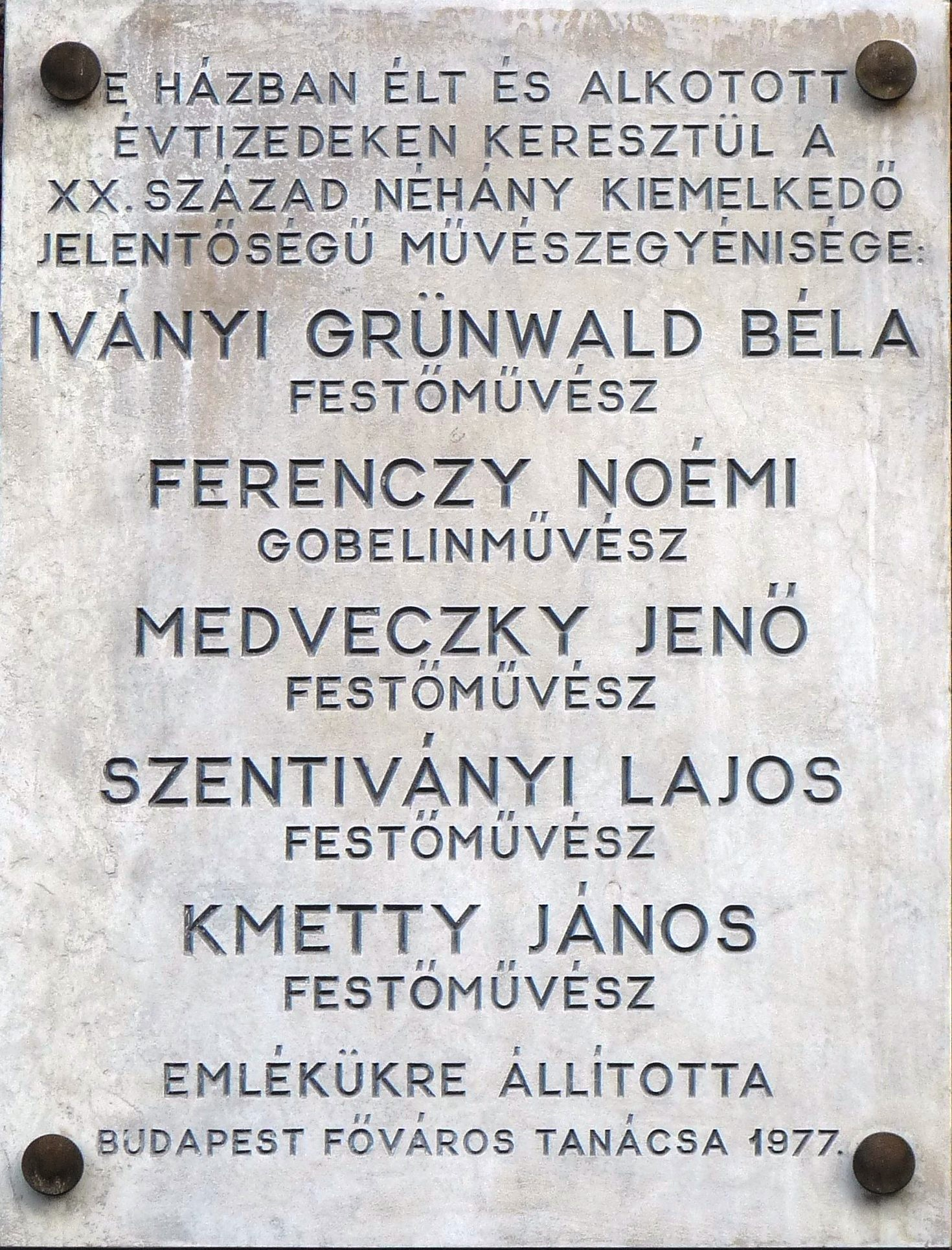 Commemorative plaque to Messrs. Béla Iványi Grünwald (1867-1940), Jenő Medveczky (1902-1969), Lajos Szentiványi (1909-1973) and János Kmetty (1889-1975) Hungarian painters and Mrs. Noémi Ferenczy (1890-1957) tapestry artist. It is affixed to the wall of the building where they lived and worked for decades. (Budapest, District V, Deák Ferenc Street 23 [Deák Square 3]).